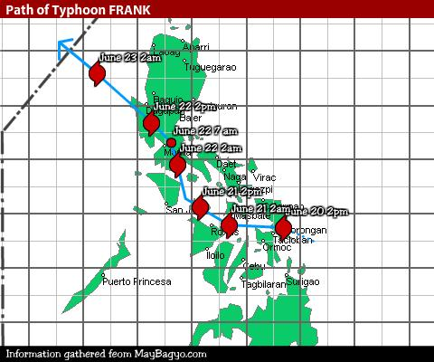 Path of Typhoon Frank as it travelled through the Philippines